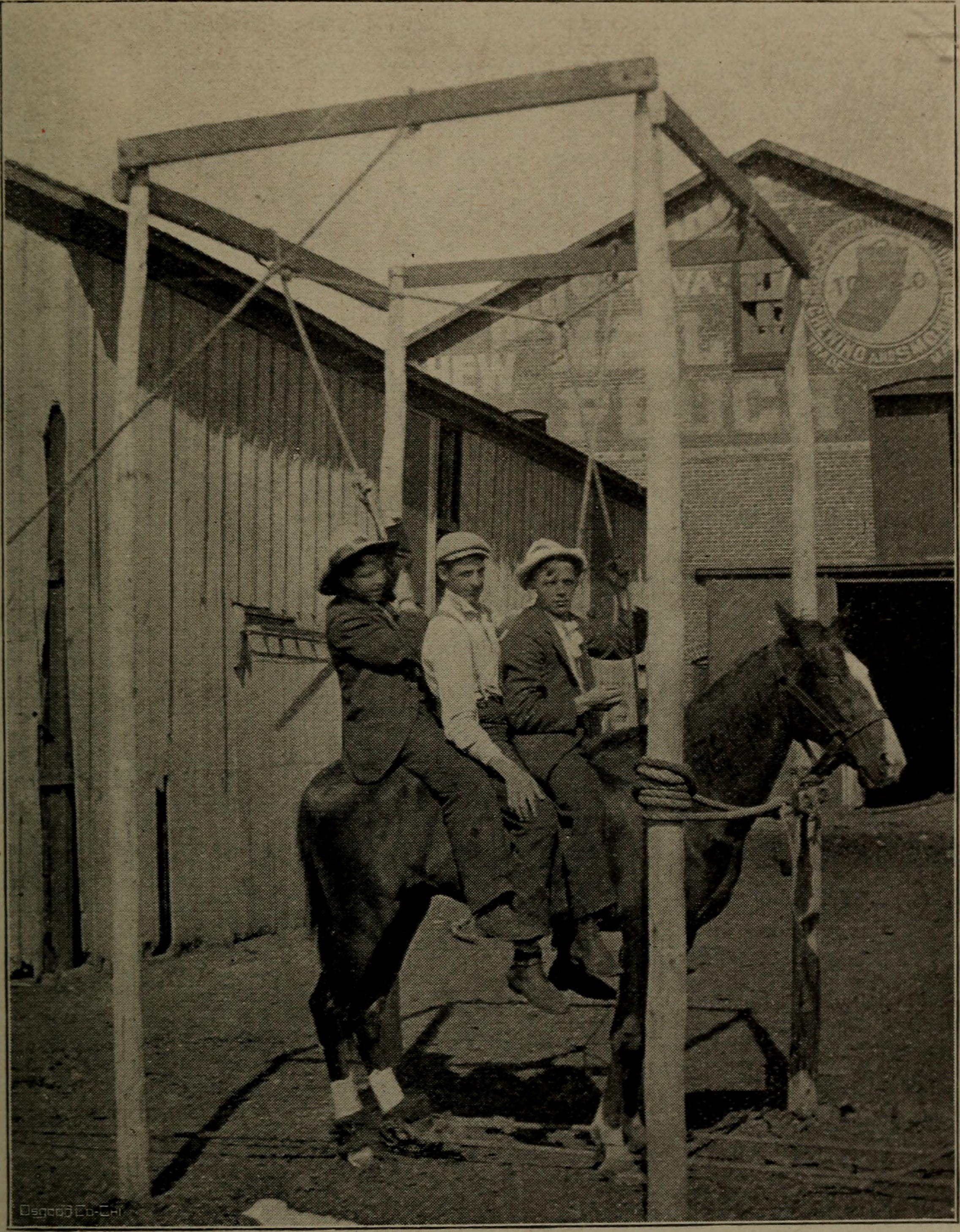 Title: The eclectic horse tamer, trainer and educator; Year: 1900 (1900s) Authors: Mercer, J. W. (from old catalog) Subjects: Horses Publisher: (Chicago, M. Flaws & co. ) Text Appearing Before Image: The Chafe Vine Hitch. 25 Text Appearing After Image: ILLUSTRATION NO. 4.